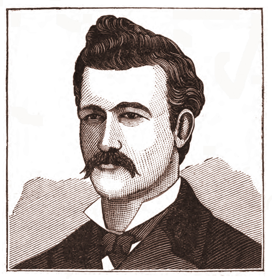 Denis Kearney (1847-1907), San Francisco, CA politician.